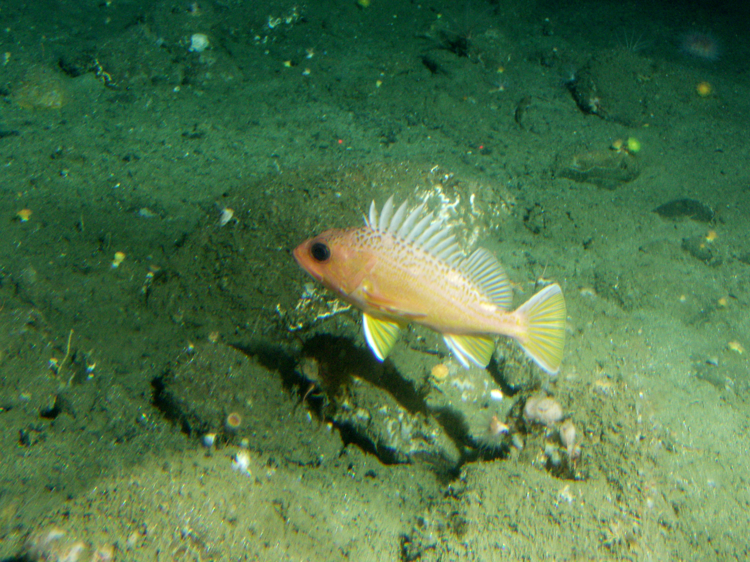 Greenspotted rockfish (Sebastes chlorostictus) in cobble habitat at 115 meters depth. Latitude 38 02 N., Longitude 123 29 W. California, Cordell Bank National Marine Sanctuary.